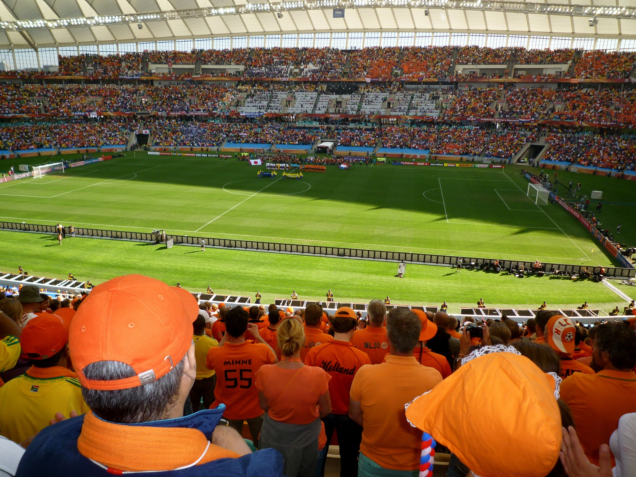 Teams on the pitch before the kick-off of the game between Netherlands and Japan at FIFA World Cup 2010, 19 June 2010, Moses Mabhida Stadium, Durban